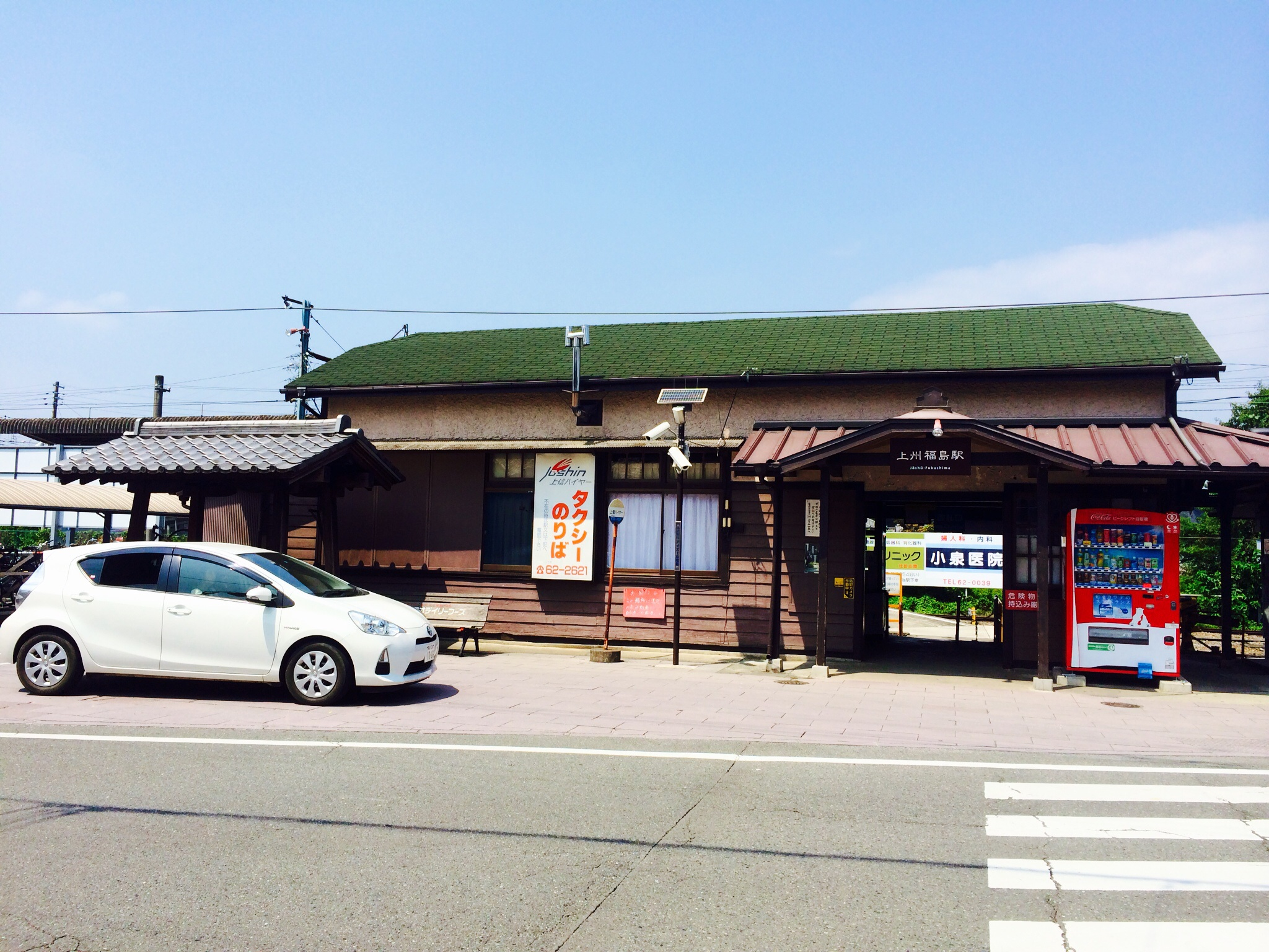 Joshu-Fukushima Station on the Joshin Line